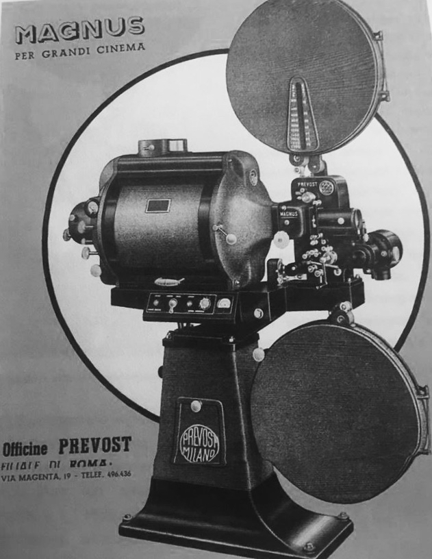 Projector Magnus by Officine Prevost. It was one of the best-selling projectors in the entire history of the company. Poster with stamp of the Rome branch, headed by Luigi Lanzoni, brother of Elena Lanzoni Prevost, wife of Attilio Prevost